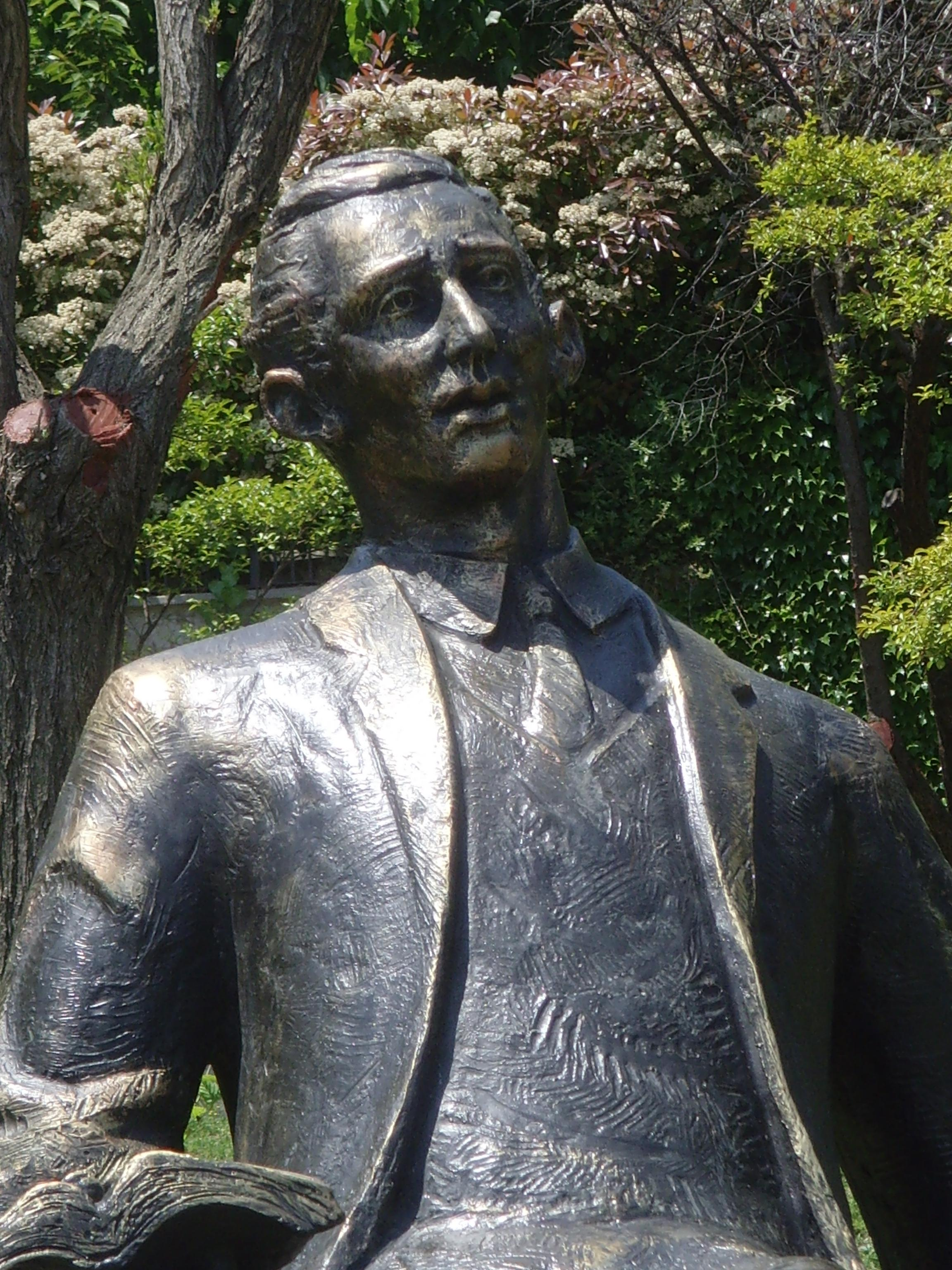 Statue of Orhan Veli Kanık in Aşiyan, Beşiktaş